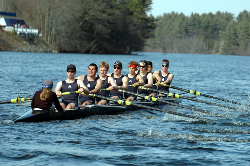 A crew boat rowed by students at Phillips Academy Andover pulls ahead in a race on the Merrimack River, their home course.